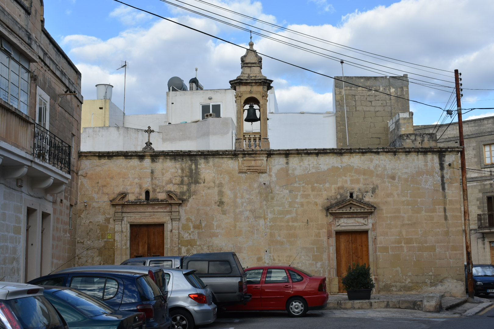 Chapel of St. Mary This media is about Maltese cultural property with inventory number 01995.